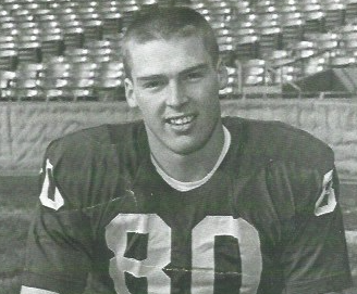 Professional football player Dave Williams as a member of the St. Louis Cardinals